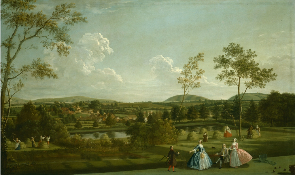 Image from here and before that Sotheby's 1979. Reproduction of a 1744 painting by Edward Haytley active in GB between 1740 and 1764.